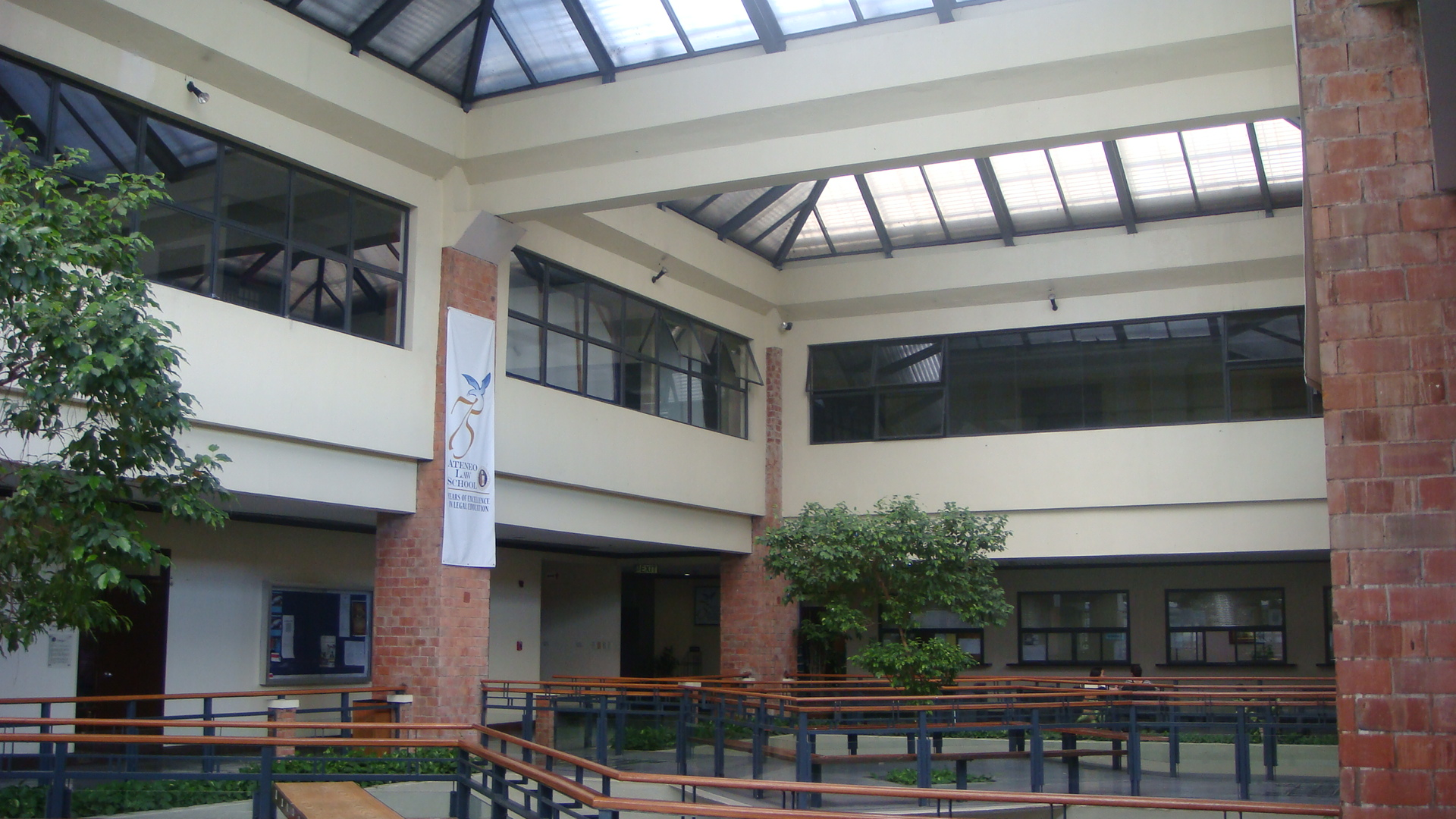 Ateneo Law School Atrium